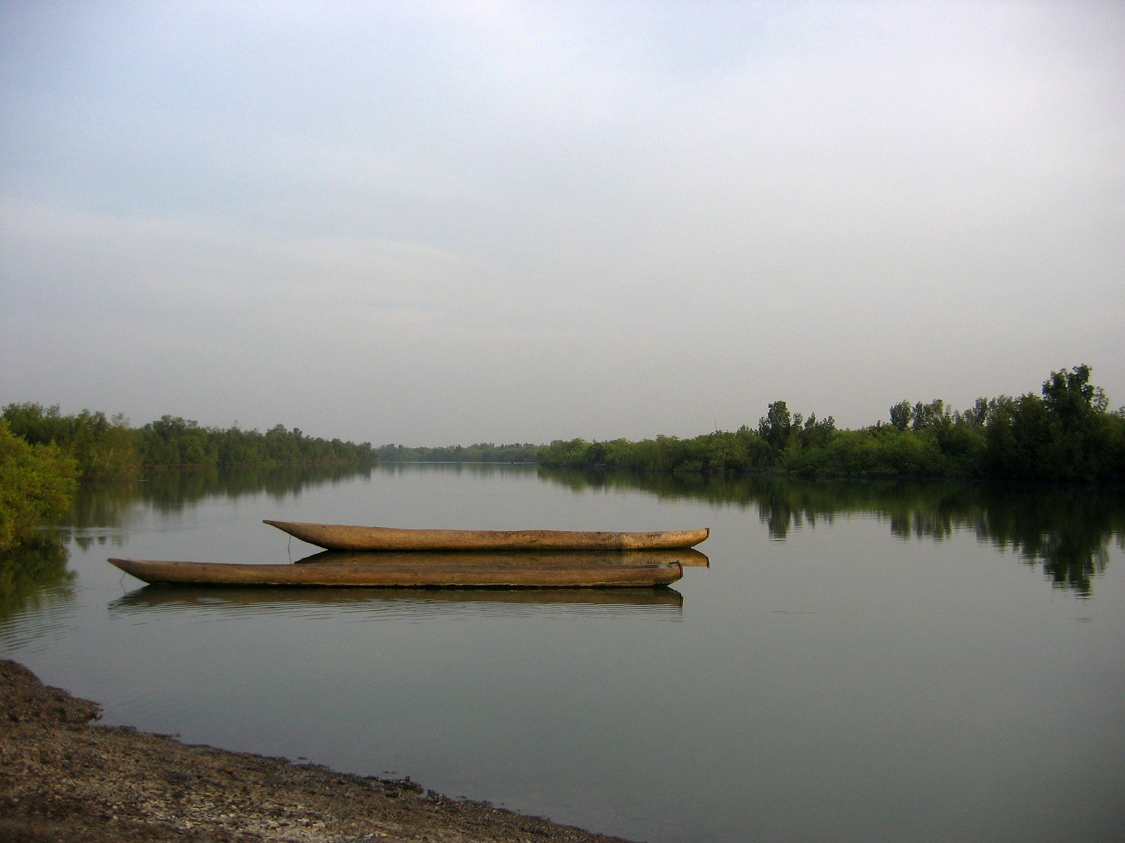 Canoas on the Cumbija river near Catió, Tombali, Guinea-Bissau